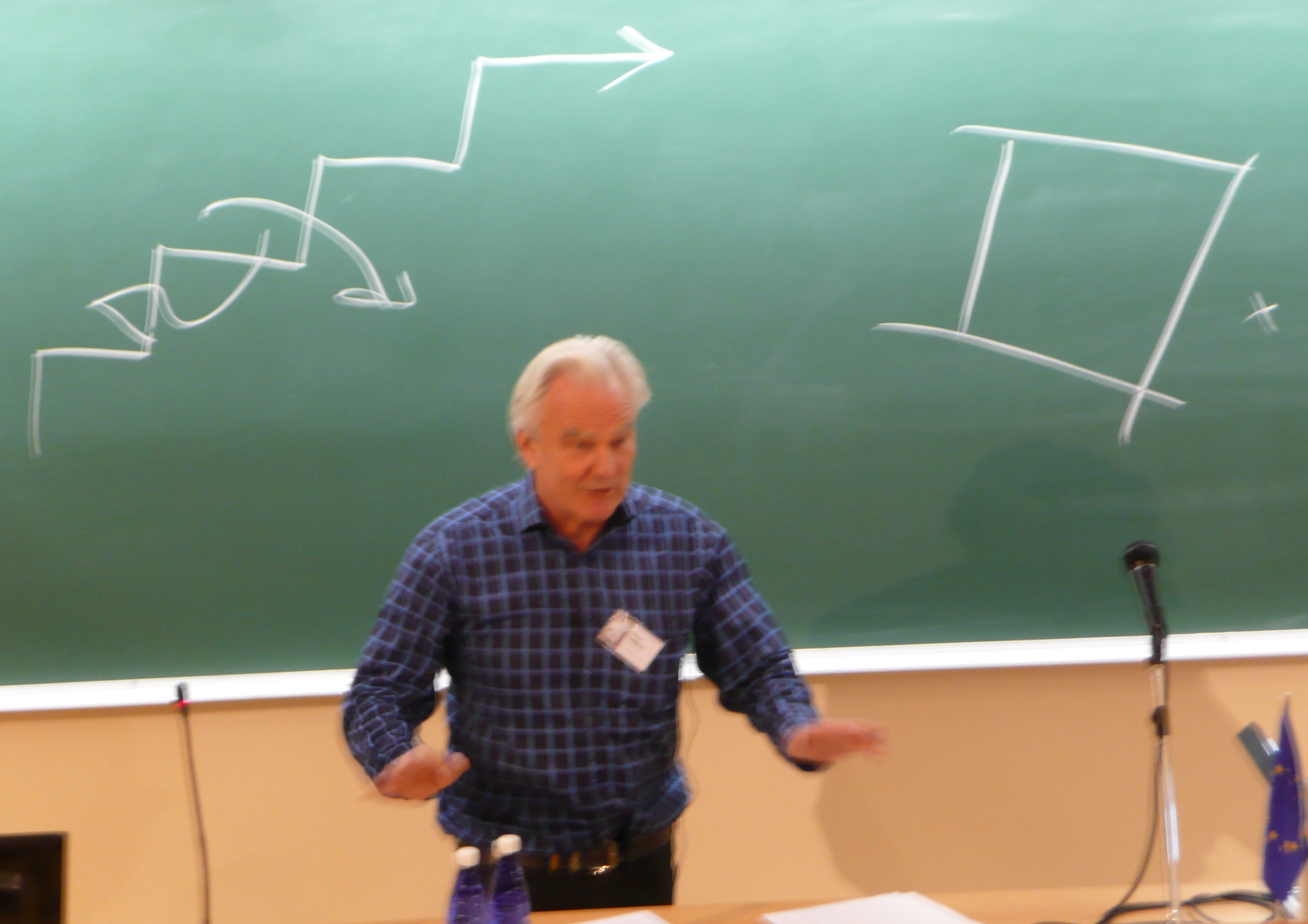 Orvar Löfgren (*1943) is a Swedish ethnologist, professor at the Lund University.